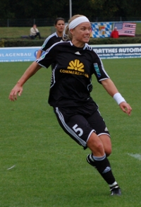 sports, football, women, germany